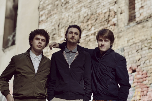 Beatenberg